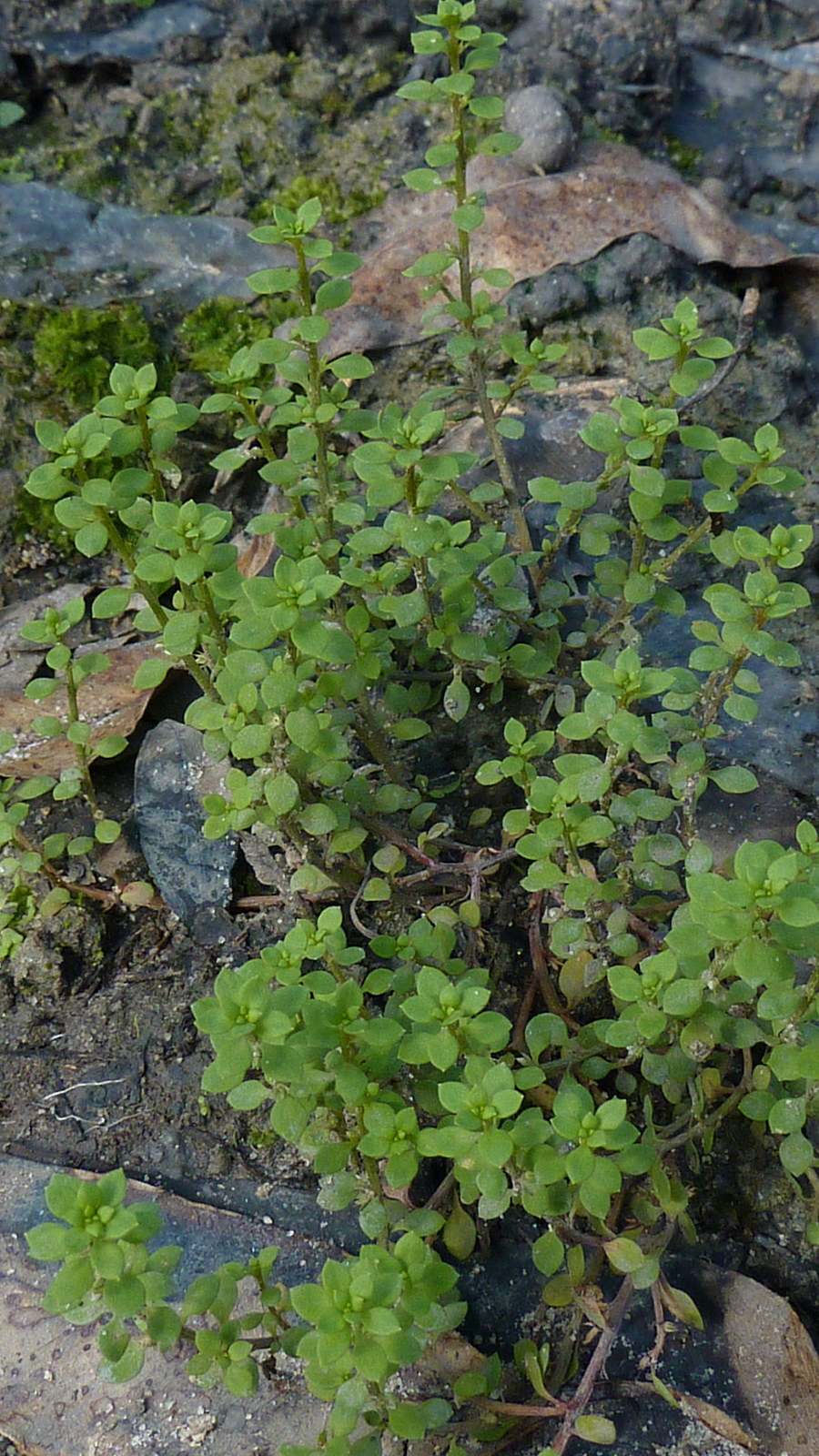 Anagallis minima in Entre Rios, Bahia, Brazil